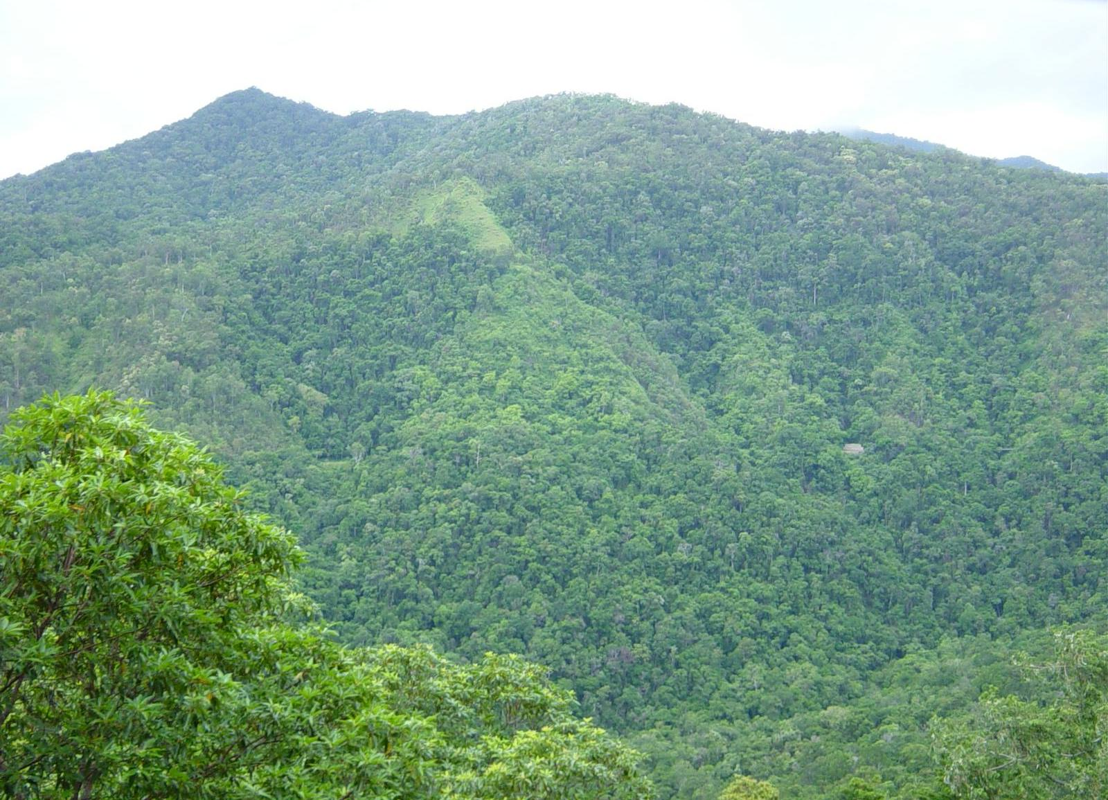 Rainforest between Kuranda and Cairns, North East Queensland. It also involves many different species of animals, even some undiscovered.